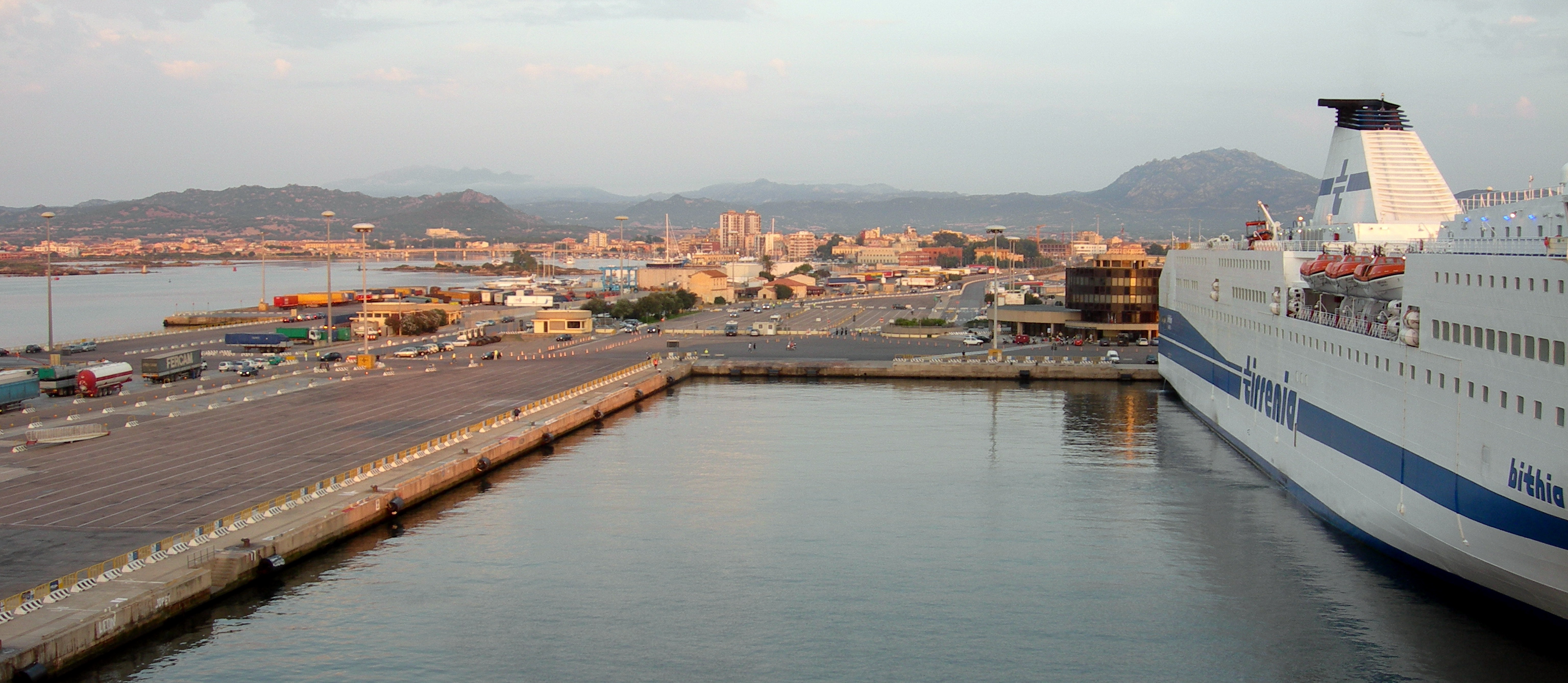 olbia - sardinia/sardegna